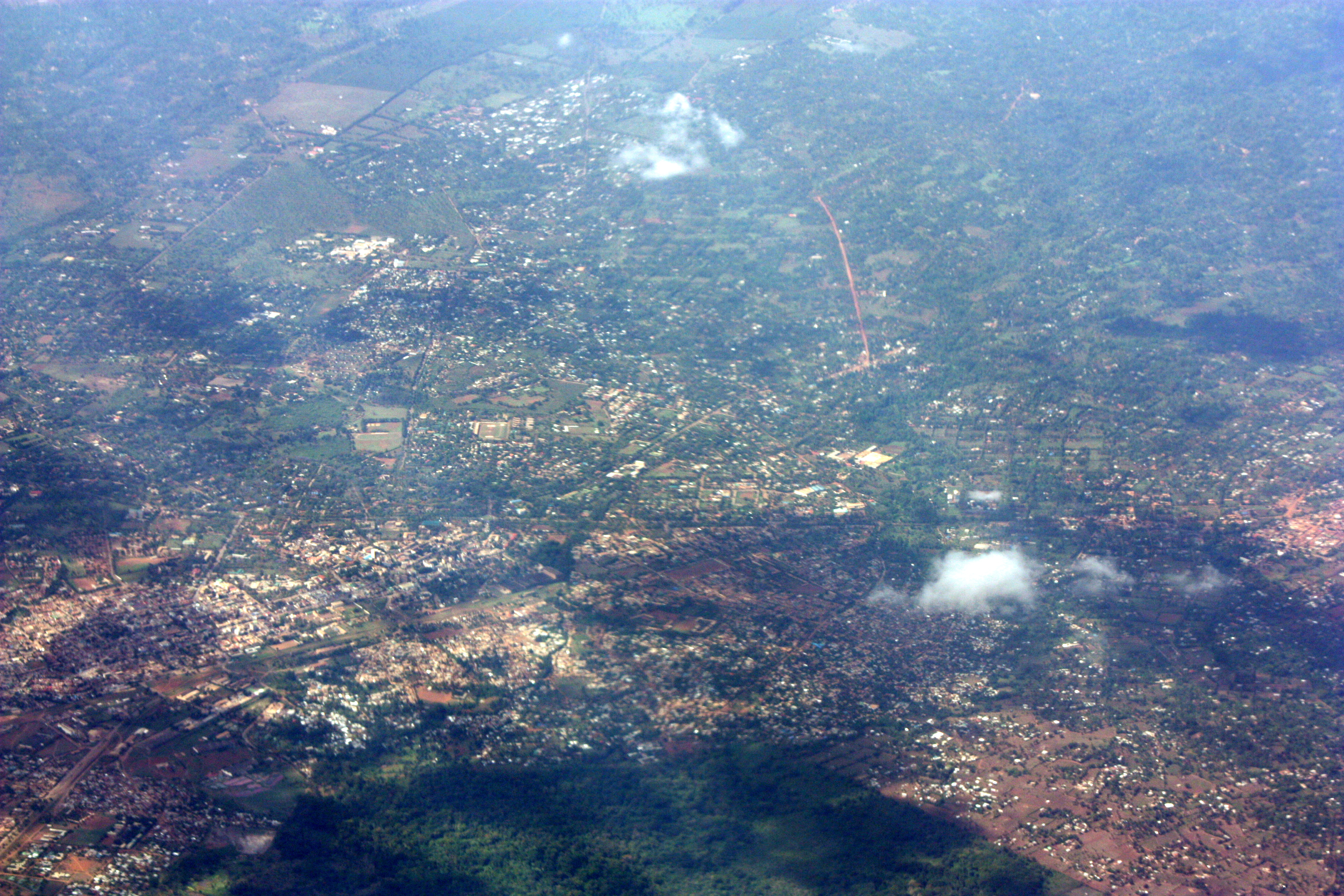 Aerial Photo of Moshi, Tanzania